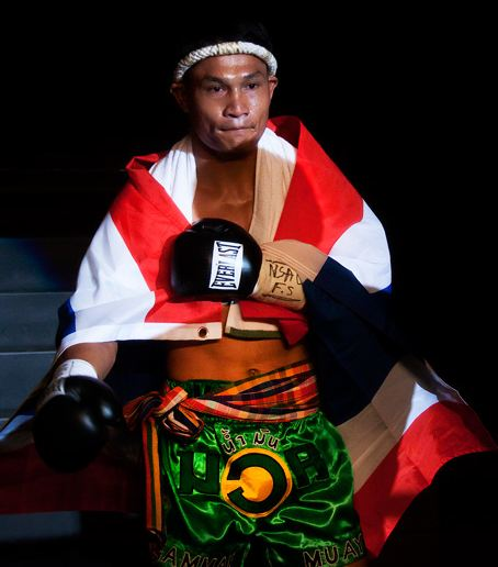 Malaipet (Mongkhon Wiwasuk) @ Battle in the Desert, Buffalo Bills Casino, Primm, NV